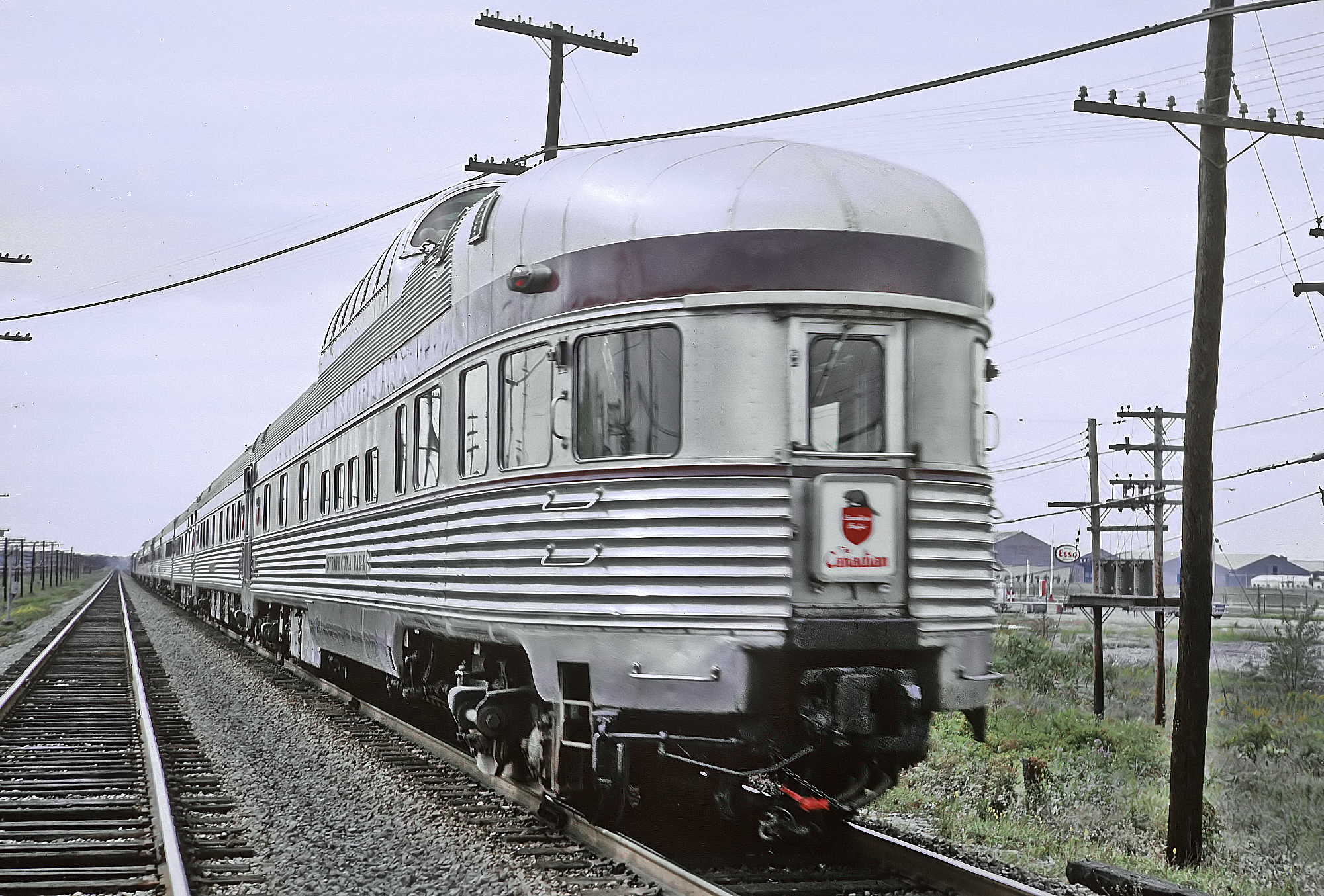 The Canadian at Dorval.